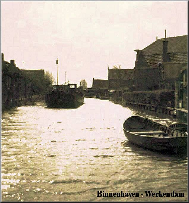 De nu gedempte binnenhaven in Werkendam